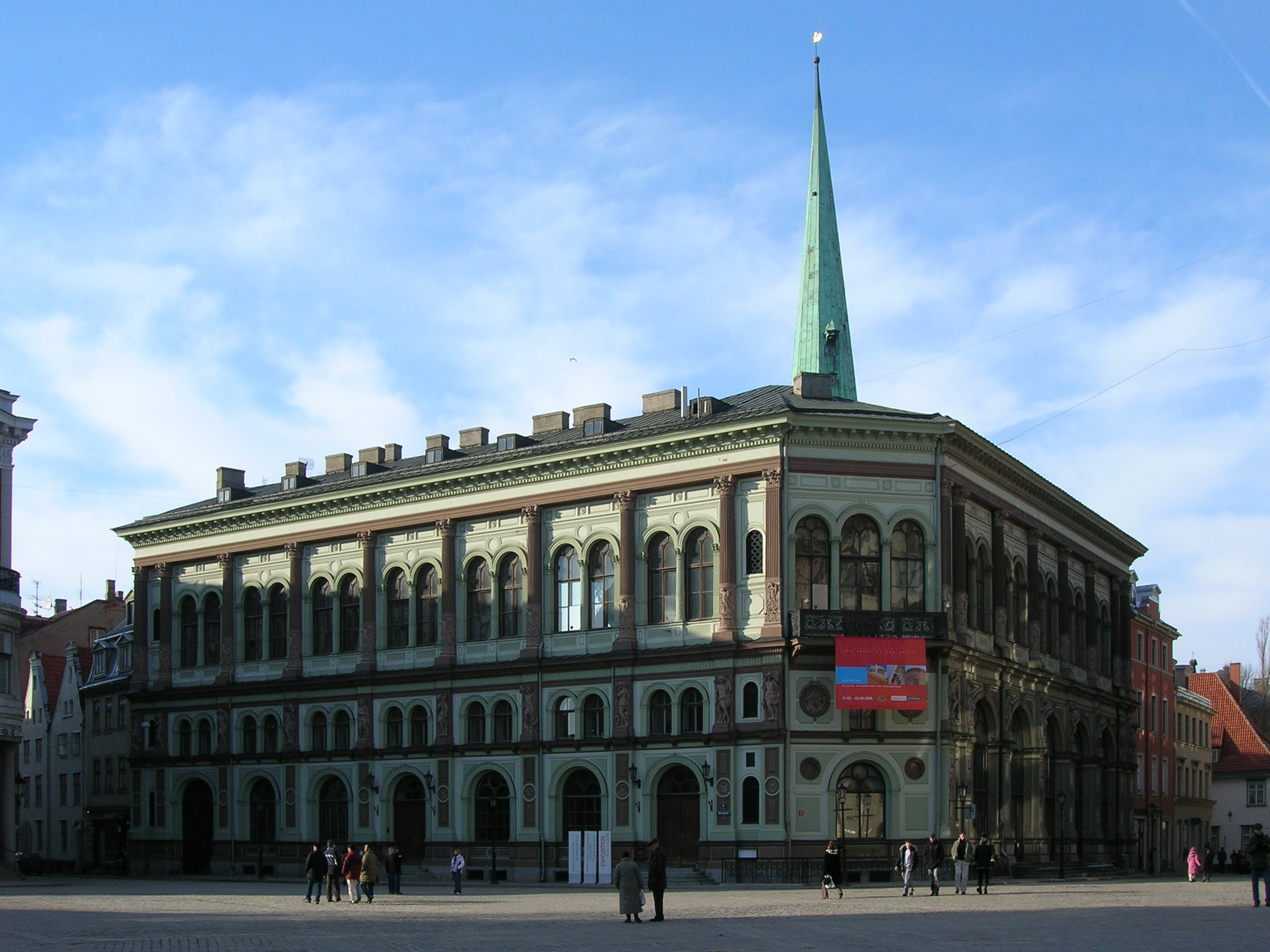 Riga - Stock Exchange. Old City.